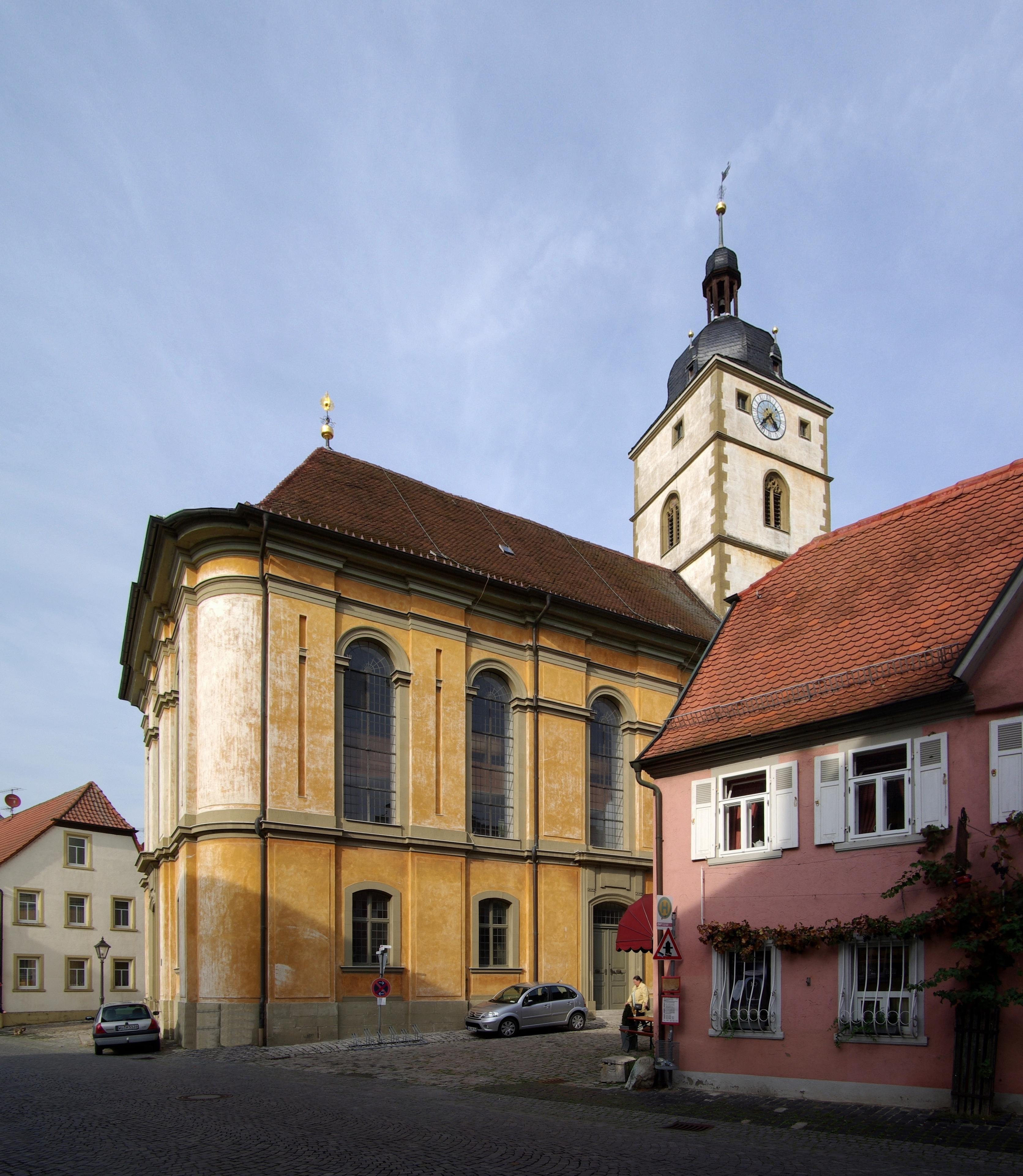 Germany, Sommerhausen, church